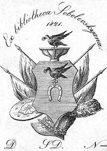 Sobol exlibris